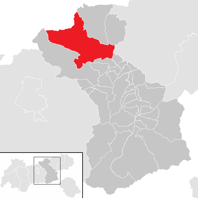 District Schwaz